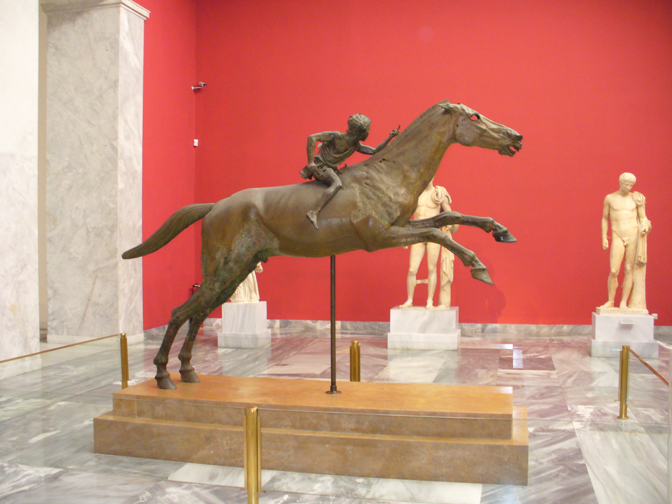 Artemision jockey, bronze, ca. 140 BC. Recovered from the sea near Cape Artemision in Euboea. National Archaeologic Museum, Athens.